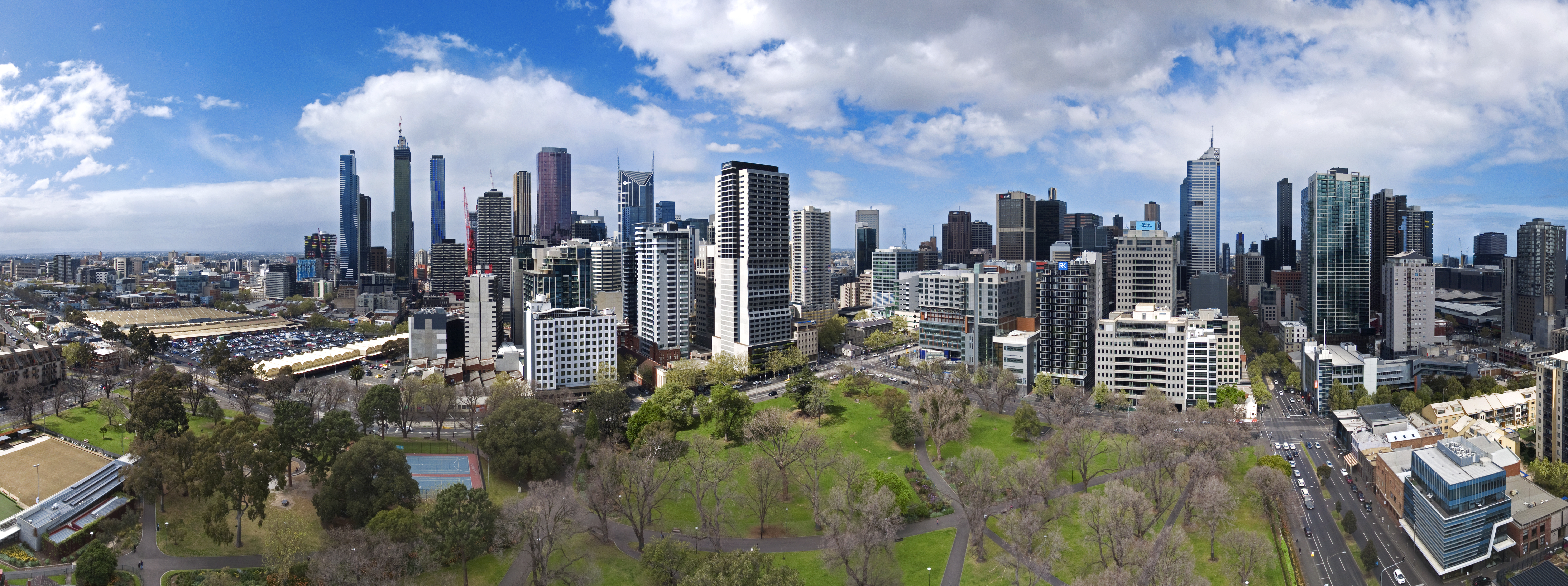 Aerial panorama of Melbourne city taken from Flagstaff Gardens. Altitude: 70m